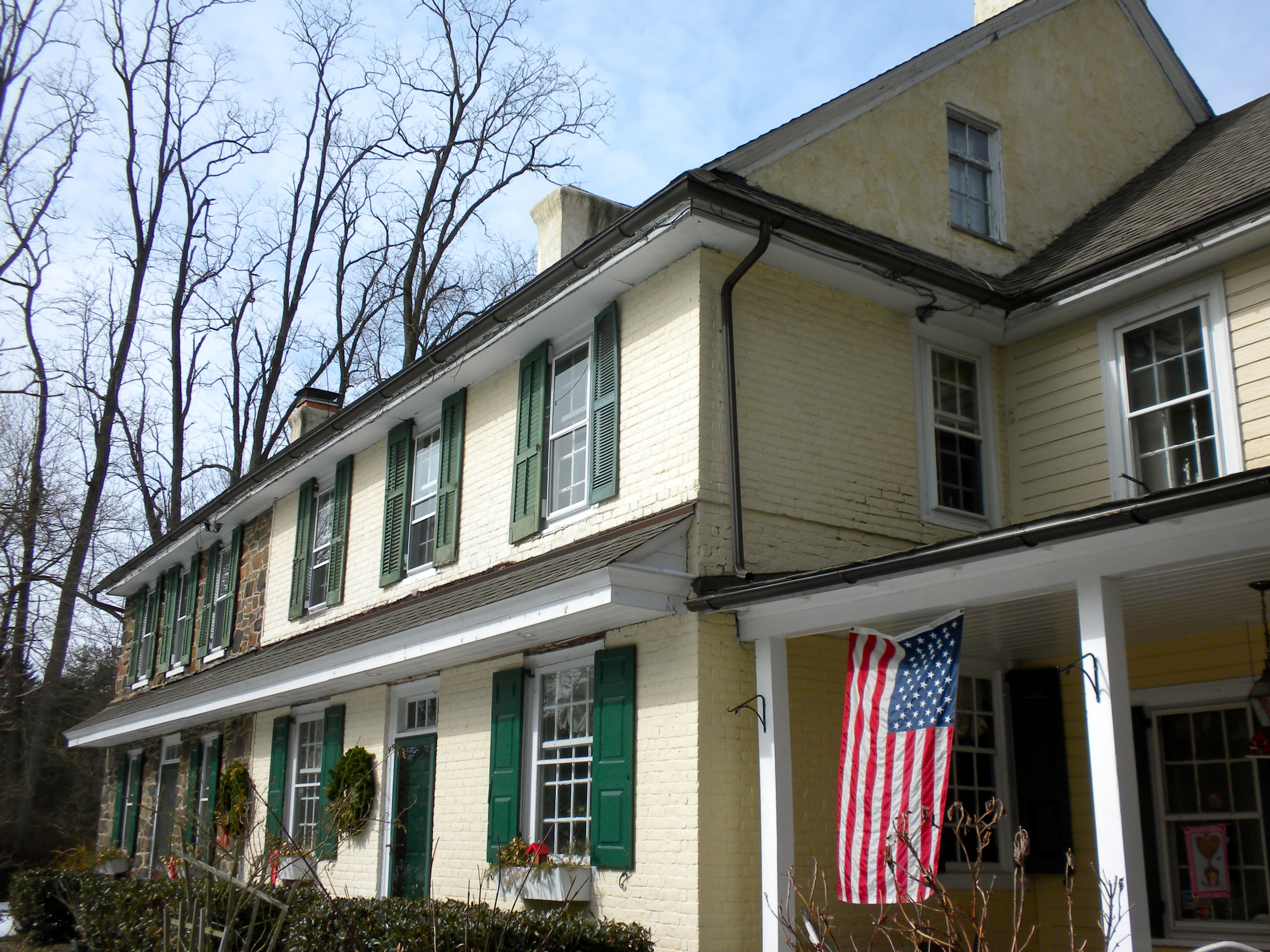 Pennsbury Inn in Pennsbury Township in Chester County, PA between Kennett Square and Chadds Ford. On NRHP since March 16, 1972. On U.S. Route 1 at its junction with Hickory Hill Road, north side of US 1, sort of under it. Earlier photo on Wikipedia was of barn on South side of US 1, probably part of the same farm, but this is the center of it.